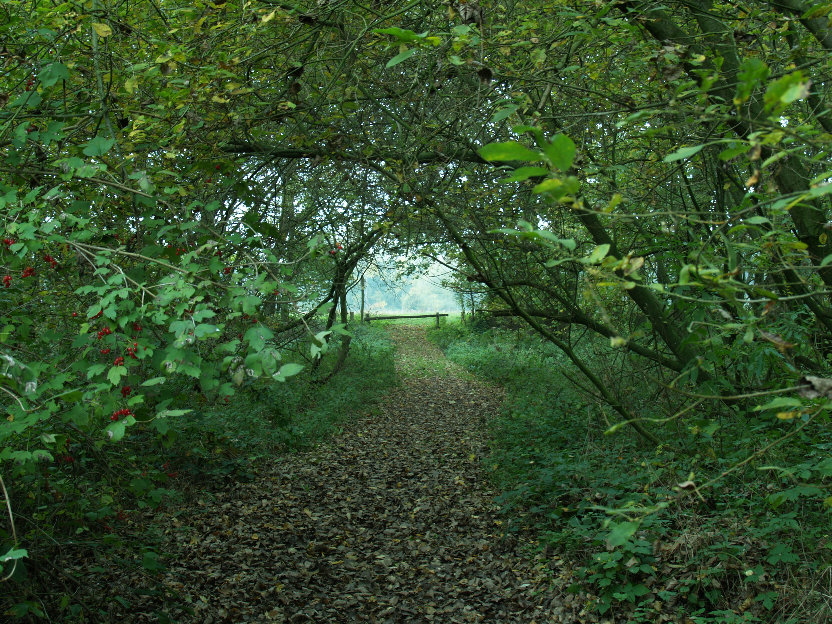 Dubbroek Maasbree